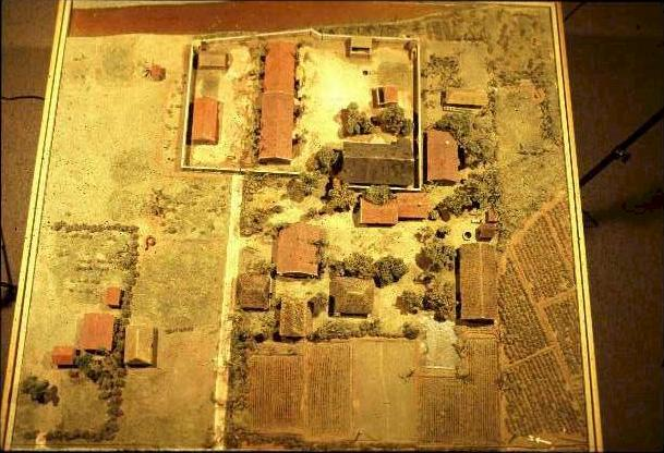 Son Tay prison camp mock-up made by Special Forces